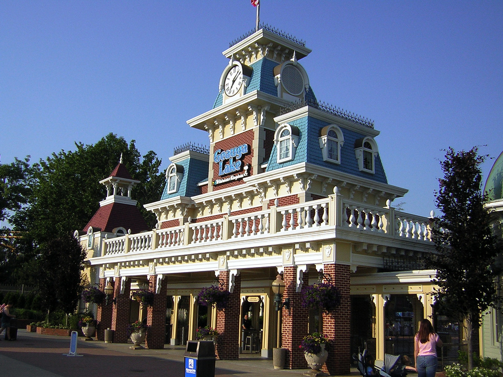 Entrace to Geauga Lake & Wildwater Kingdom.